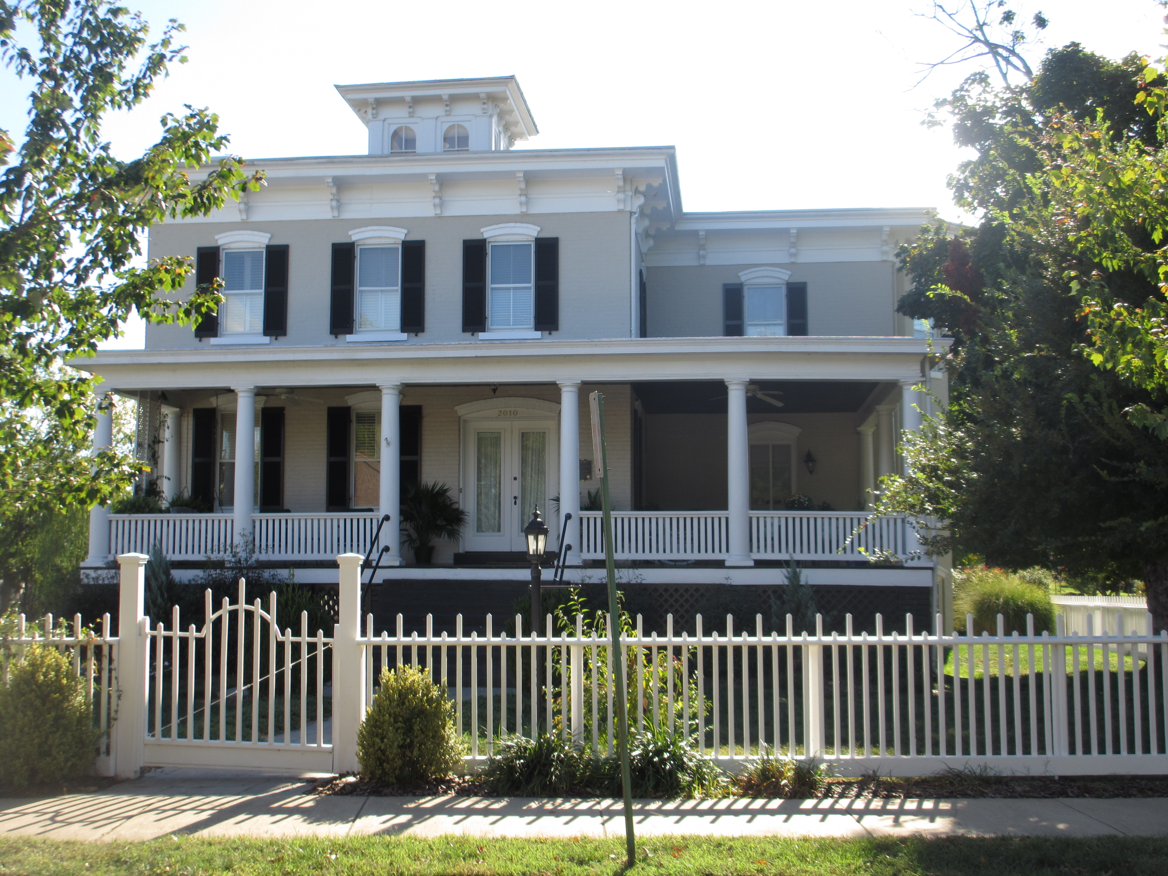 Elmhurst